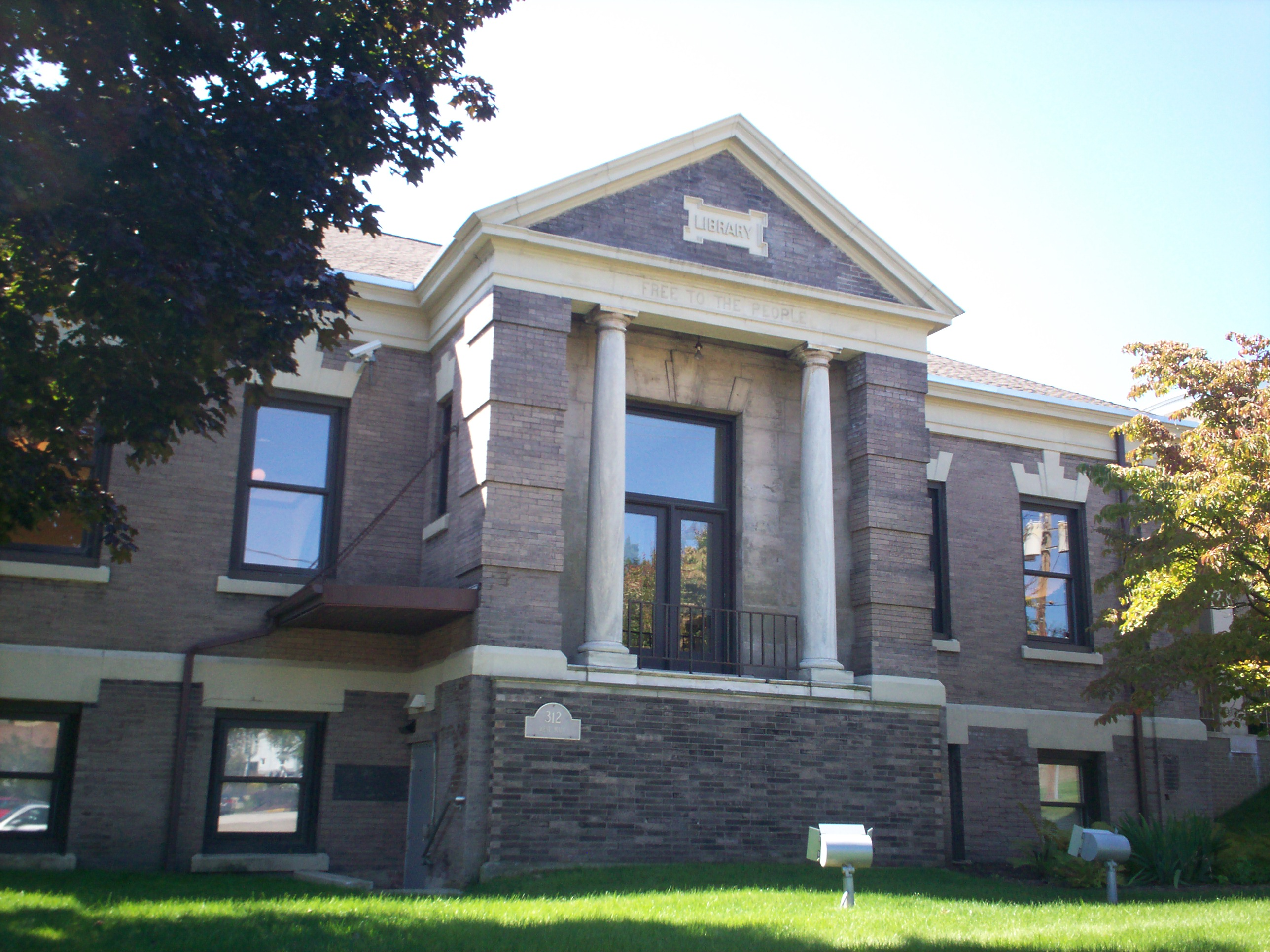 Photo of original Carnegie portion of Kent Free Library in Kent, Ohio, built 1902-1903.